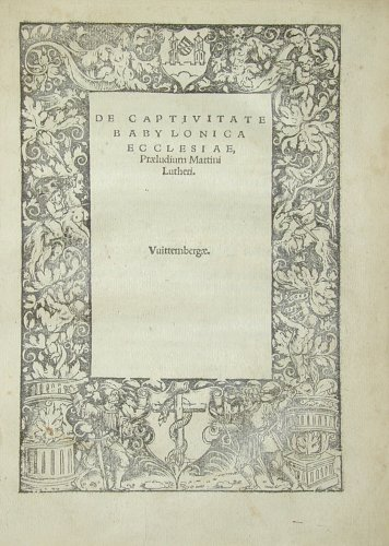 Front page to Martin Luther treatise